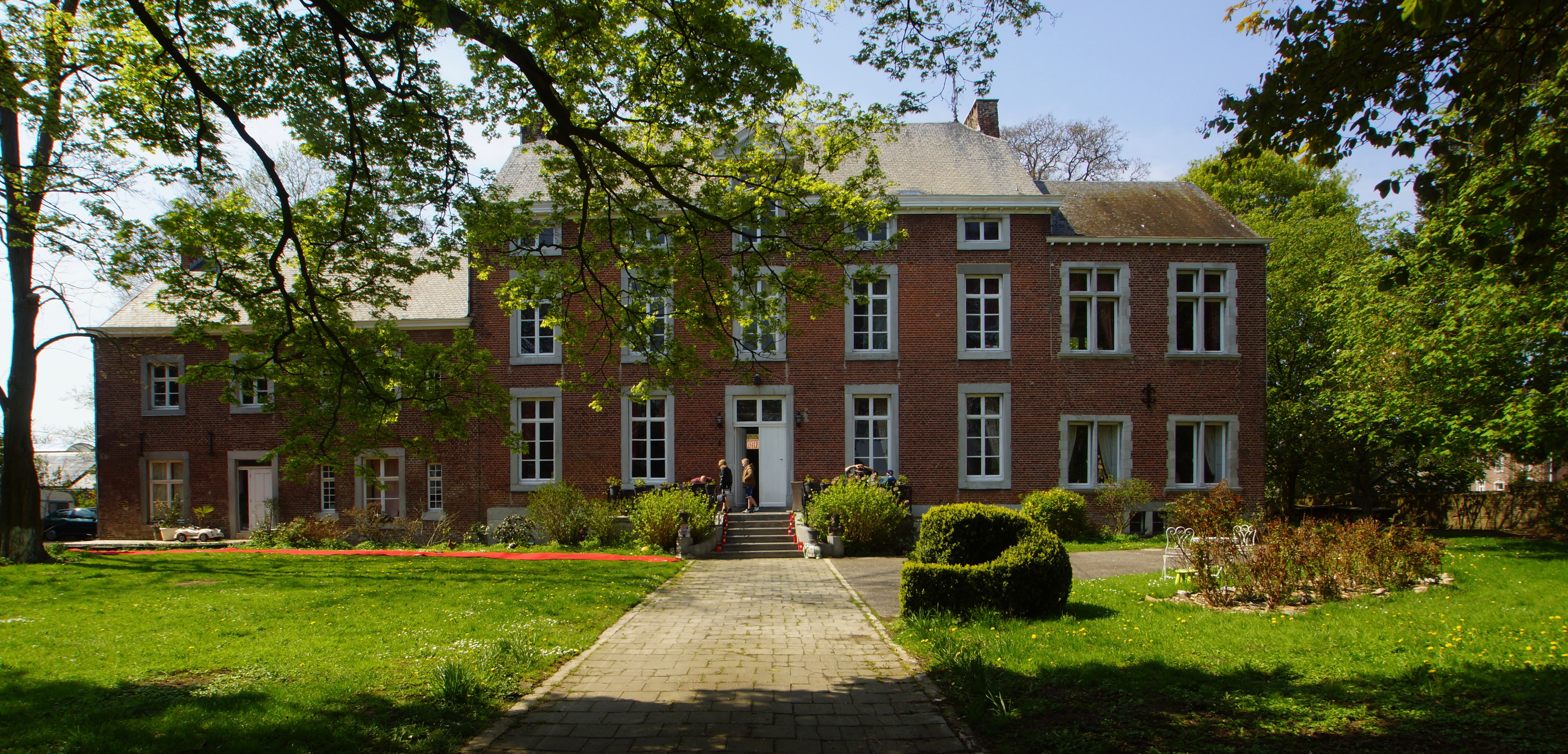 Geer (Ligney), Belgium: De l'Enclos Castle